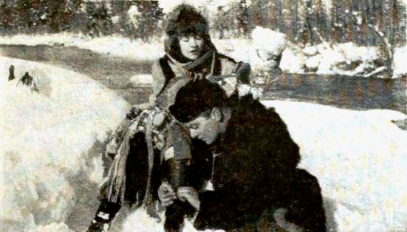 Still from the American drama film Over the Border (1922) with Tom Moore and Betty Compson, on page 62 of the August 1922 Photoplay.